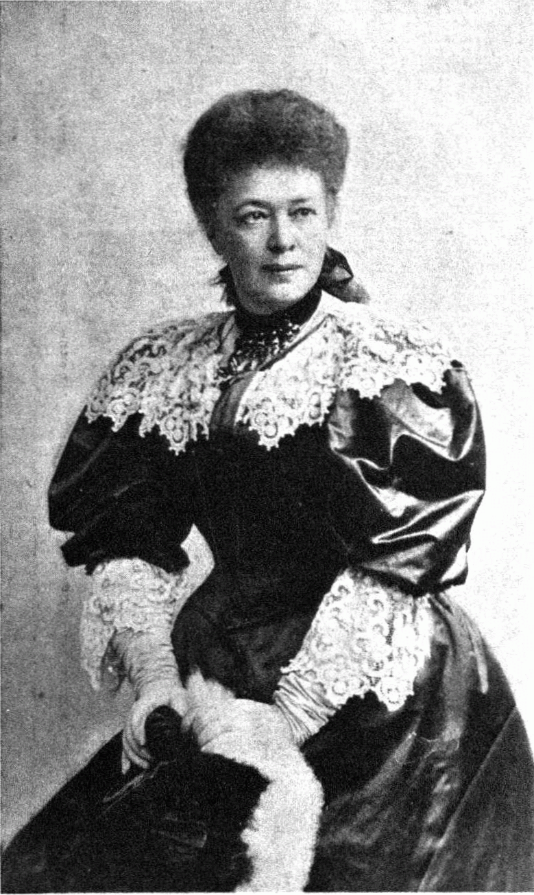 Bertha von Suttner